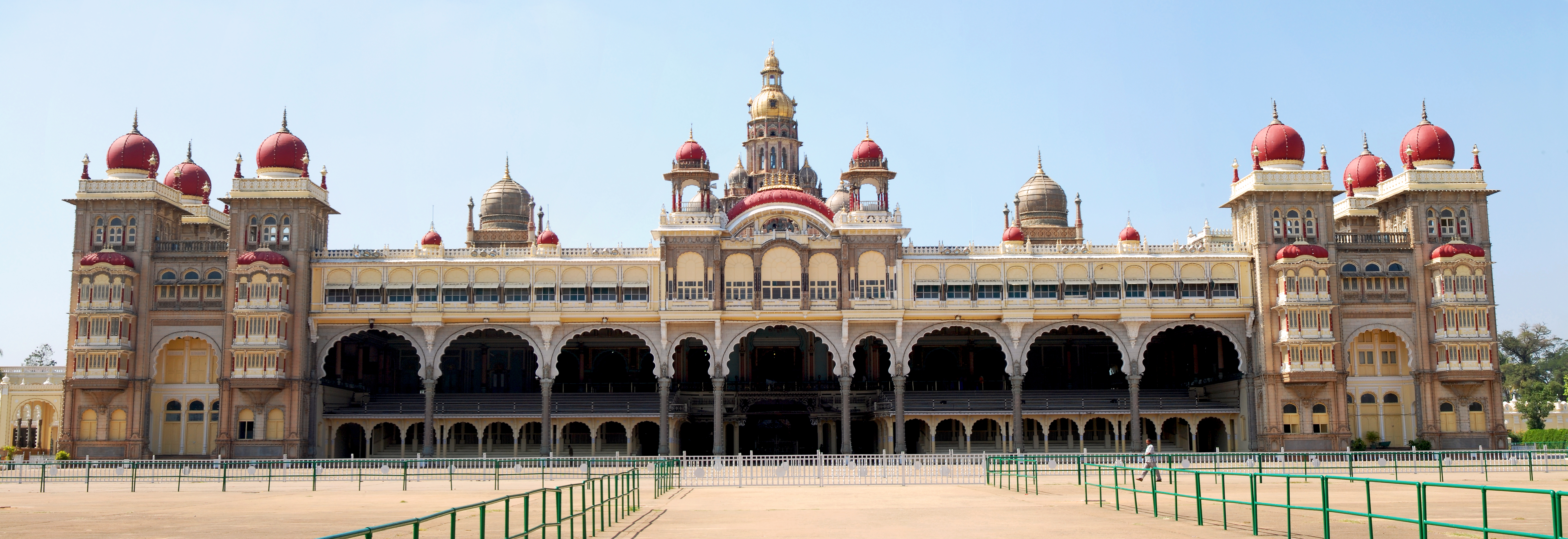 Panoramic view of the Mysore Palace at Mysore in India.